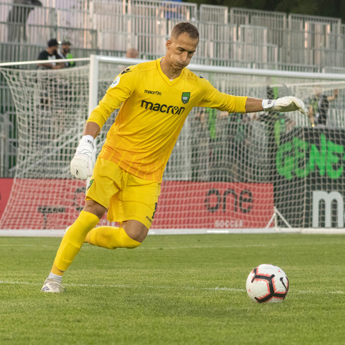 Matthew Silva taking a goal kick during his debut match for York9 FC.